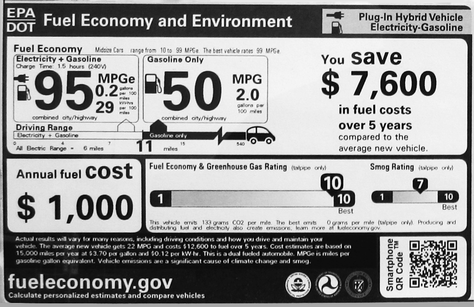 EPA/DOT fuel economy and environment label for the 2012 Toyota Prius Plug-in Hybrid (Plug-In Hybrid Vehicle Electricity-Gasoline)